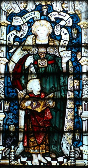 St. Edmund's church Crickhowell - Stained glass window - detail This is one of the church's windows by the renowned stained glass makers Kempe.